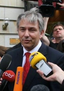 Mayor Klaus Wowereit in an interview in front of the Adlon Hotel in Berlin.